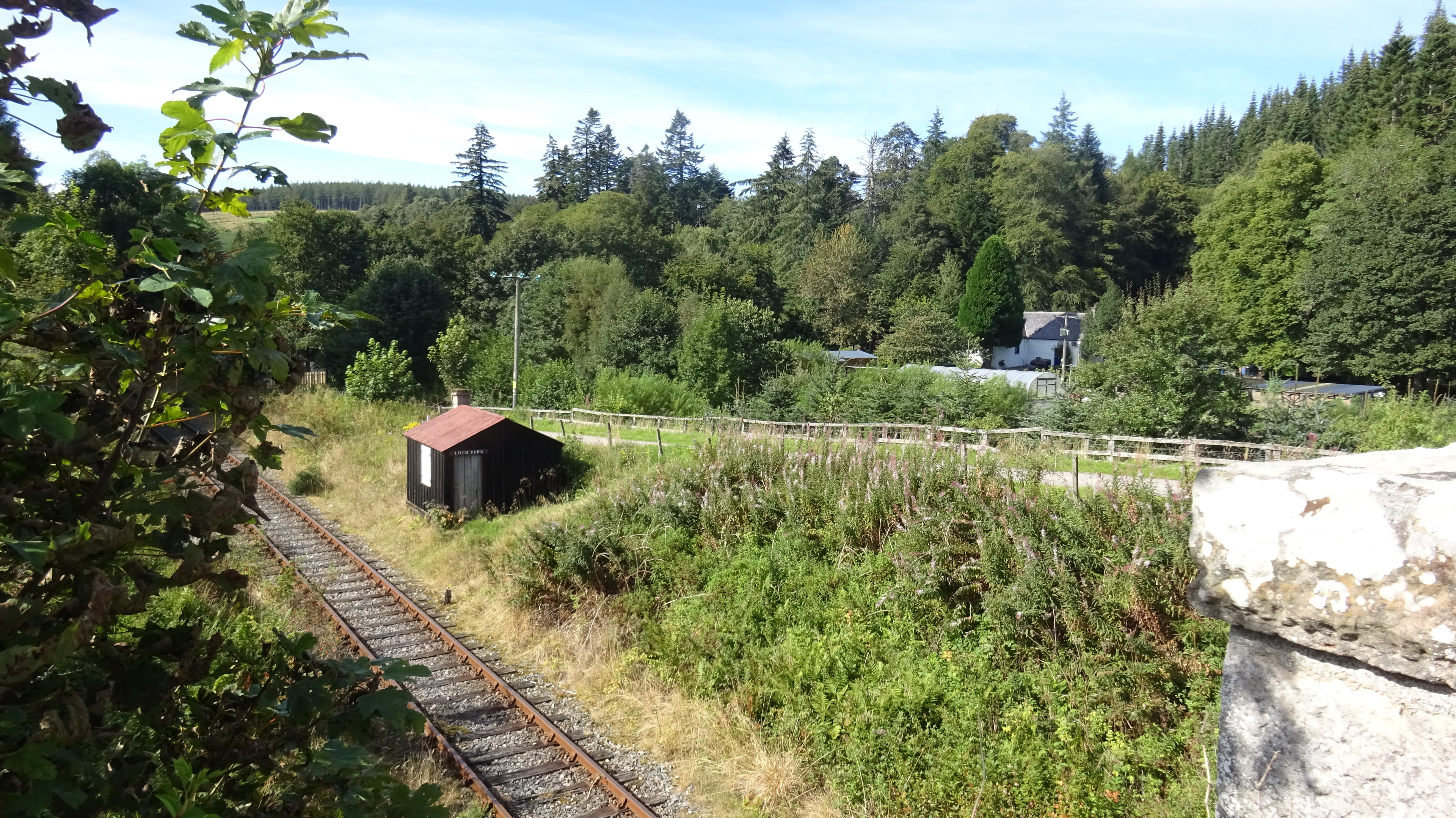 The site of the old Drummuir Curlers' Platform site, Keith and Dufftown Railway. Aberdeenshire.